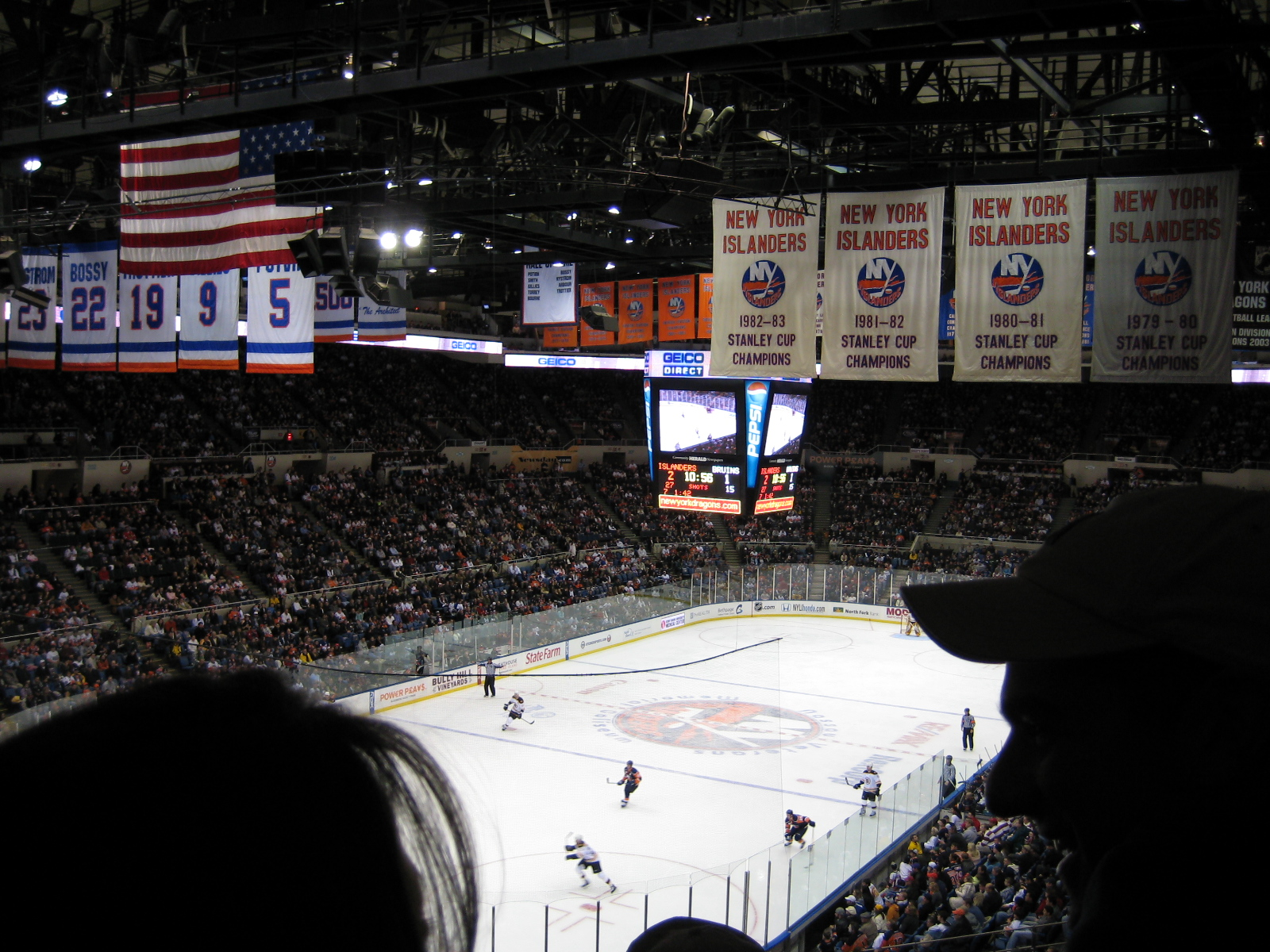 NVMC during an Islanders game against the Boston Bruins.